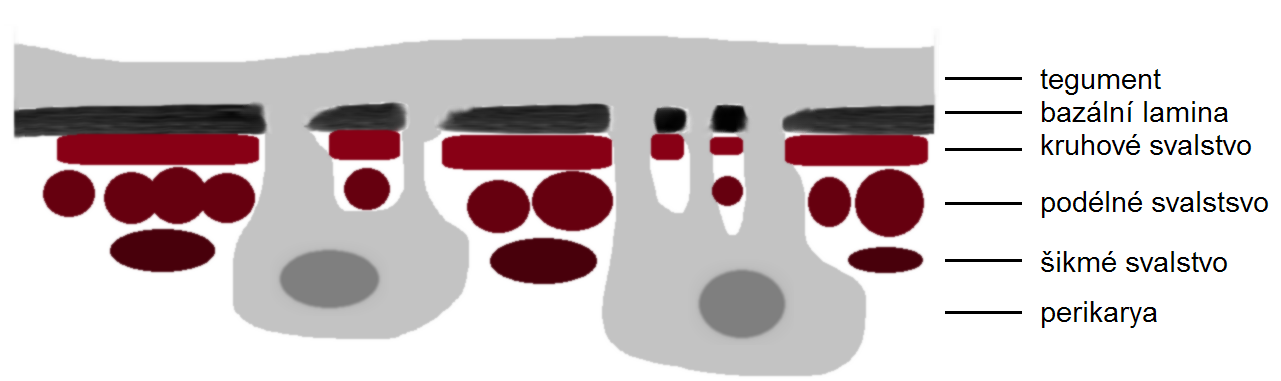 Neodermis Schématické znázornění stavby neodermis na povrchu těla.